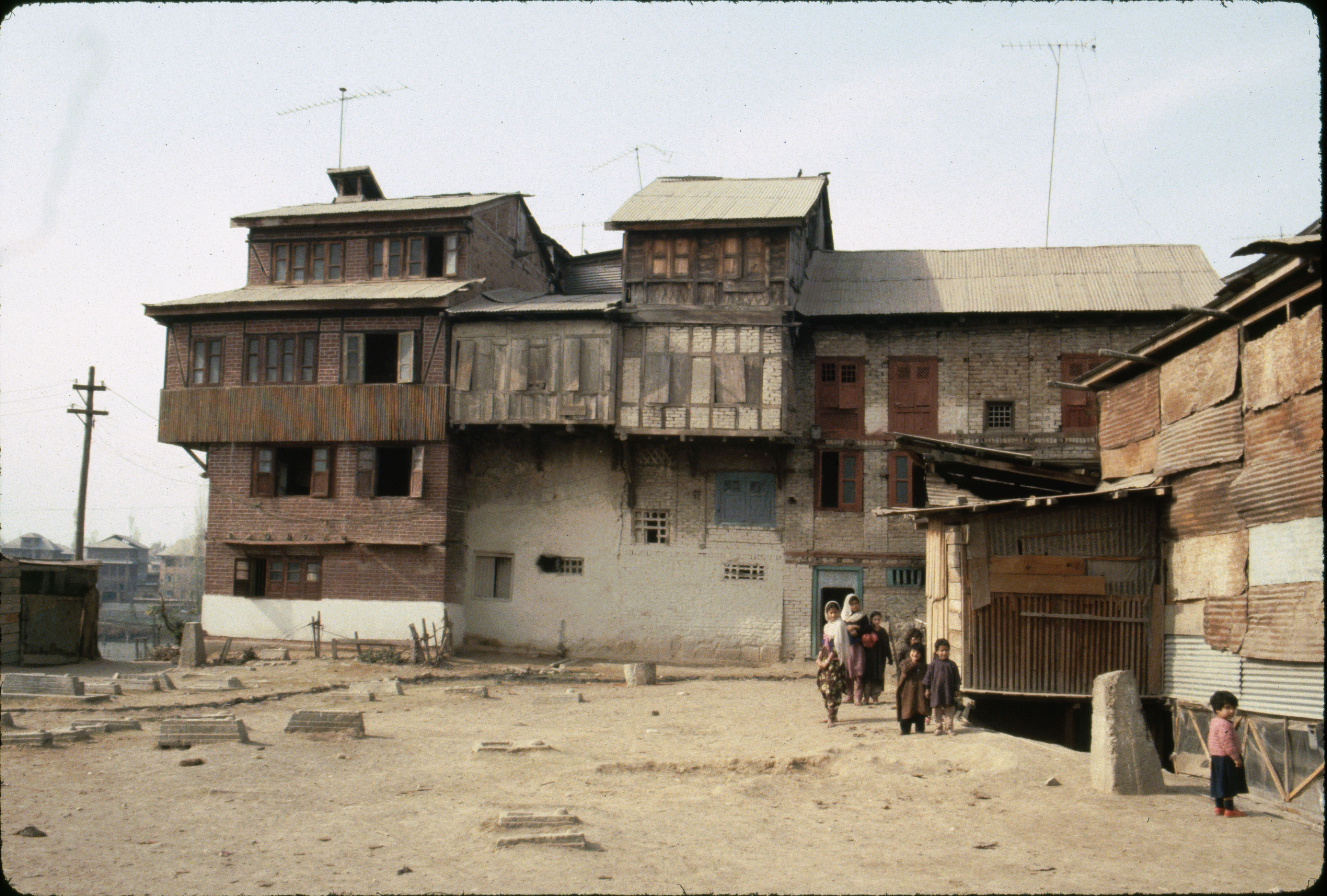 Houses of carpet weavers; Srinagar, Kashmir, India. In the basement of those houses children are weaving the famous Kashmir carpets. Patterns are owned by family and are passed on through generations.